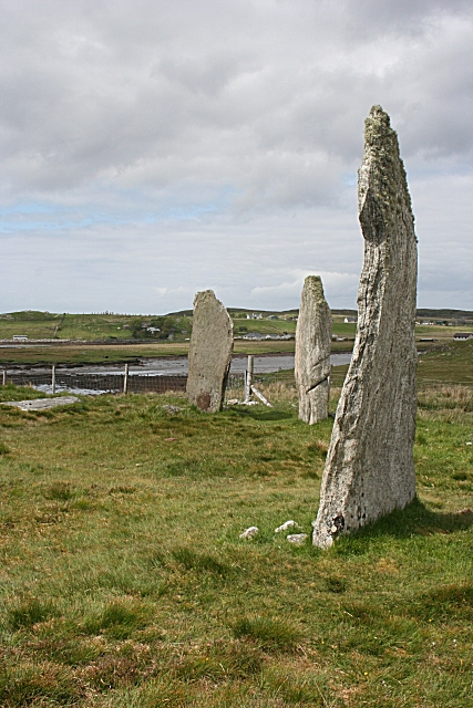 Cnoc Ceann a' Ghàrraidh (Calanais II). Three of the surviving stones making up the circle at Cnoc Ceann a' Ghàrraidh. The nearest is the one in 1346218 and the other two are in 1346224. Calanais I, the most famous of the Calanais sites, is just visible on the skyline at left.